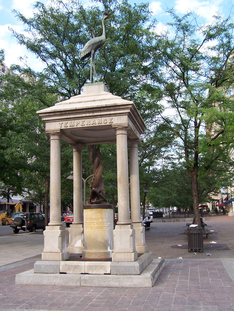 D.C.'s Temperance Fountain, taken in summer 2006. I took this photo and give wikipedia permission to publish.